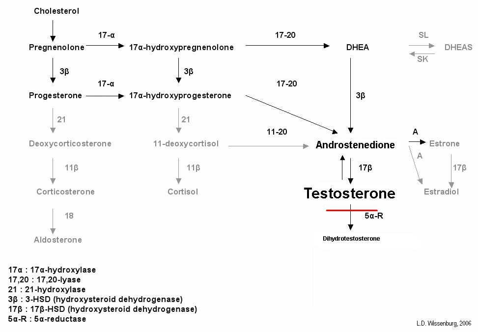 Biochemistry; testosterone biosynthesis, pathology in 5alpha-reductase deficiency